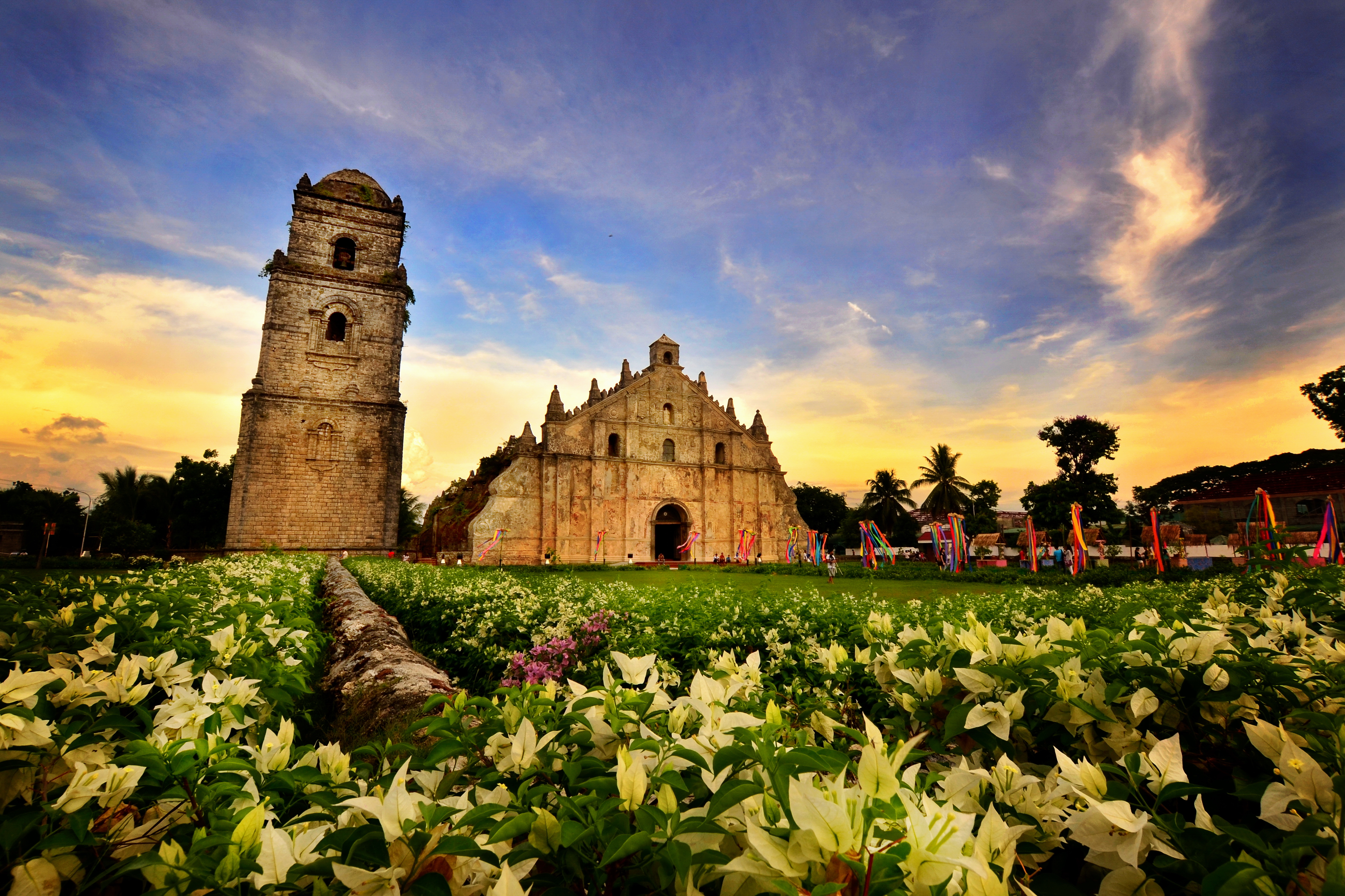 Located in the town of Paoay, Ilocos Norte in the Philippines, the church is one of the four churches in the Philippines designated as a UNESCO World Heritage Site in 1994. Finished in 1710, it was inaugurated only on February 28, 1896. It was destroyed by an earthquake while being constructed in 1706 and in 1927.Filipino: Matatagpuan sa bayan ng Paoay, Ilocos Norte sa Pilipinas, ang simbahan ay isa sa apat na simbahan sa Pilipinas na itinuring UNESCO World Heritage Site noong 1994. Natapos noong 1710, pinasinayaan lamang ito noong Pebrero 28, 1896. Nasira ito ng lindol habang ginagawa noong 1706 at noong 1927.